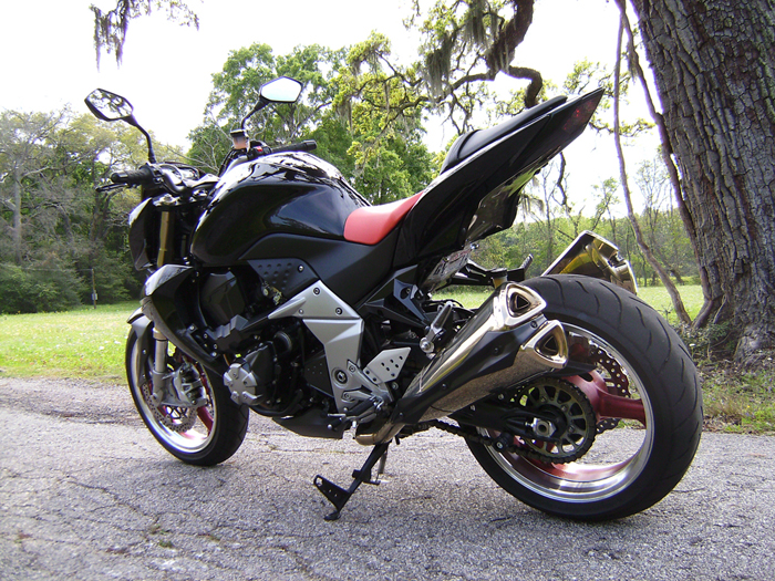 2007 Kawasaki Z1000, the new generation of naked bikes (rear view)